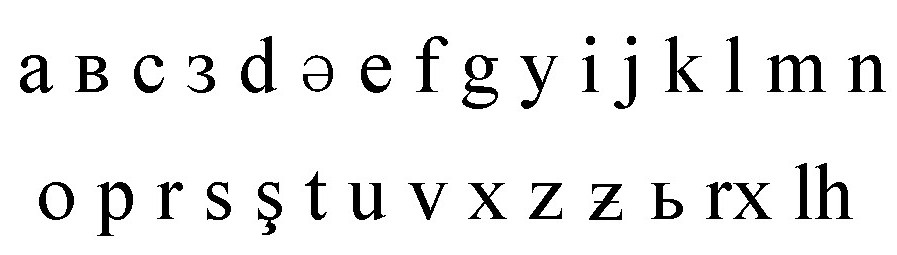 Mokshan Latin alphabet approved in 1932